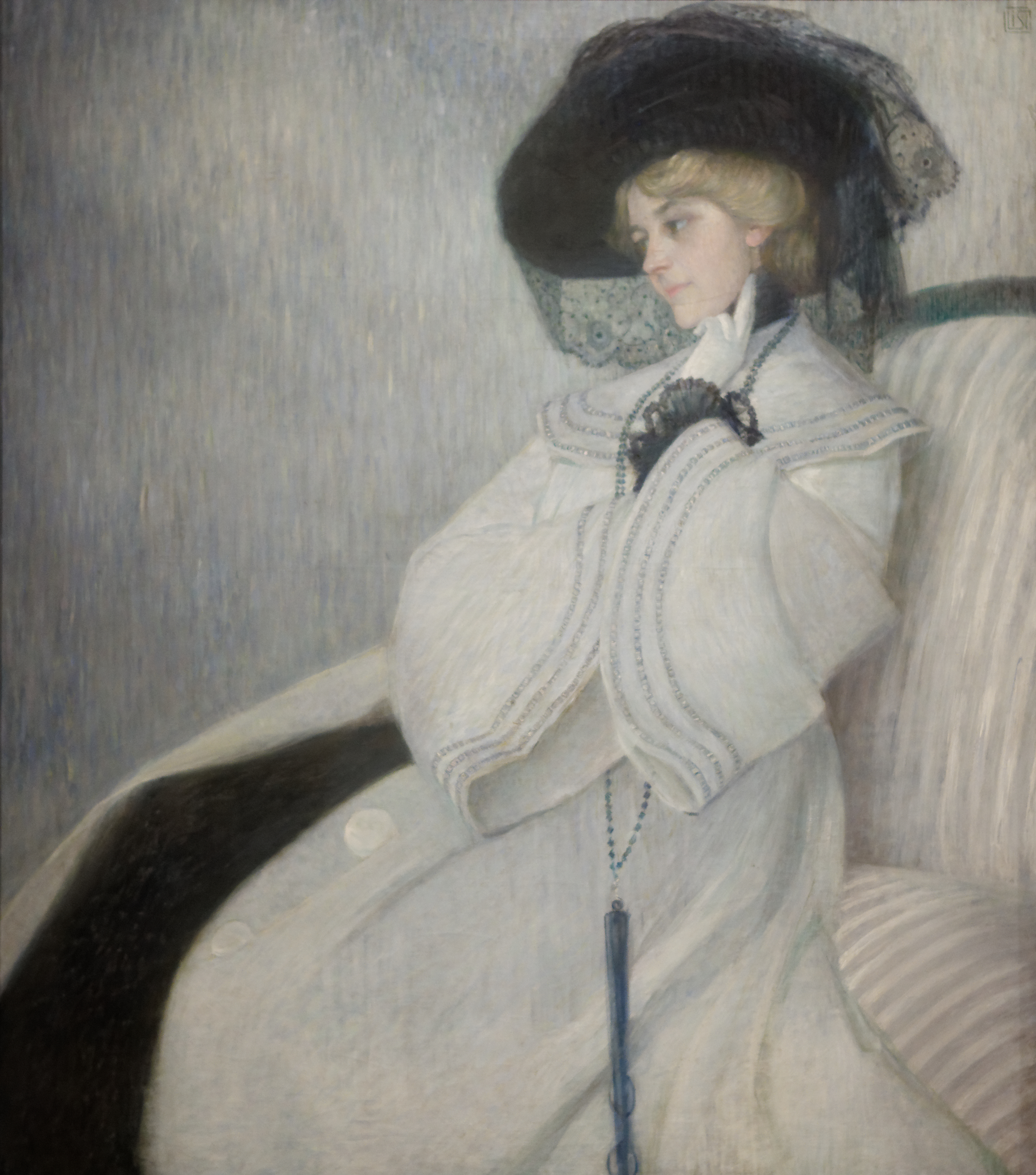 Picture in Black and White